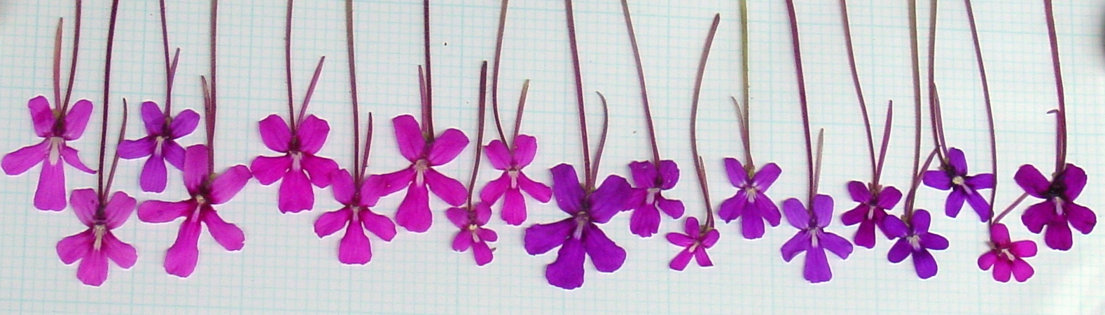 Comparison of Pinguicula moranensis flowers from a single population in Oaxaca, on a 1/10 inch grid.